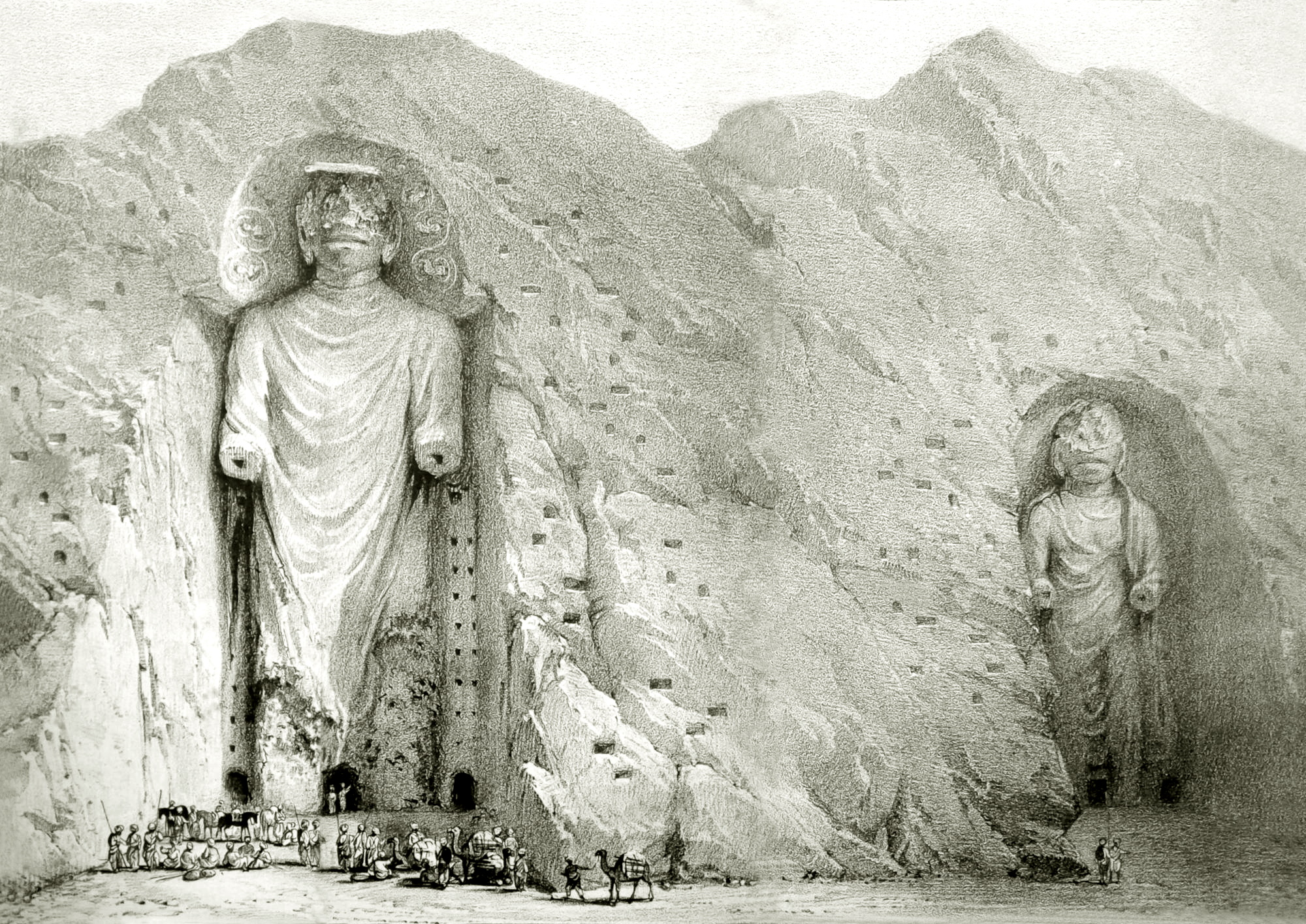 Engraving from Alexander Burnes' Travels into Bokhara. THE COLOSSAL IDOLS AT BAMEEAN. On Stone by L. Haghe for Burnes’ Travels into Bokhara Day & Haghe Lithrs to the King, Gate St. J. Murray Albemarle St. 1834.